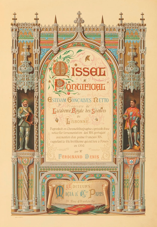 Chromolithographic facsimile, 1879, of the Missal of the Academy of Sciences (by Estêvão Gonçalves Neto, c. 1622).